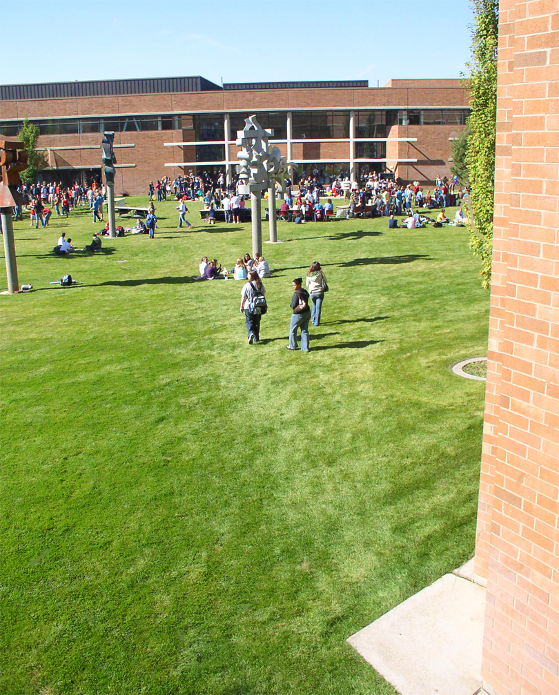 Mt. Spokane's courtyard. Author, Jdubman.